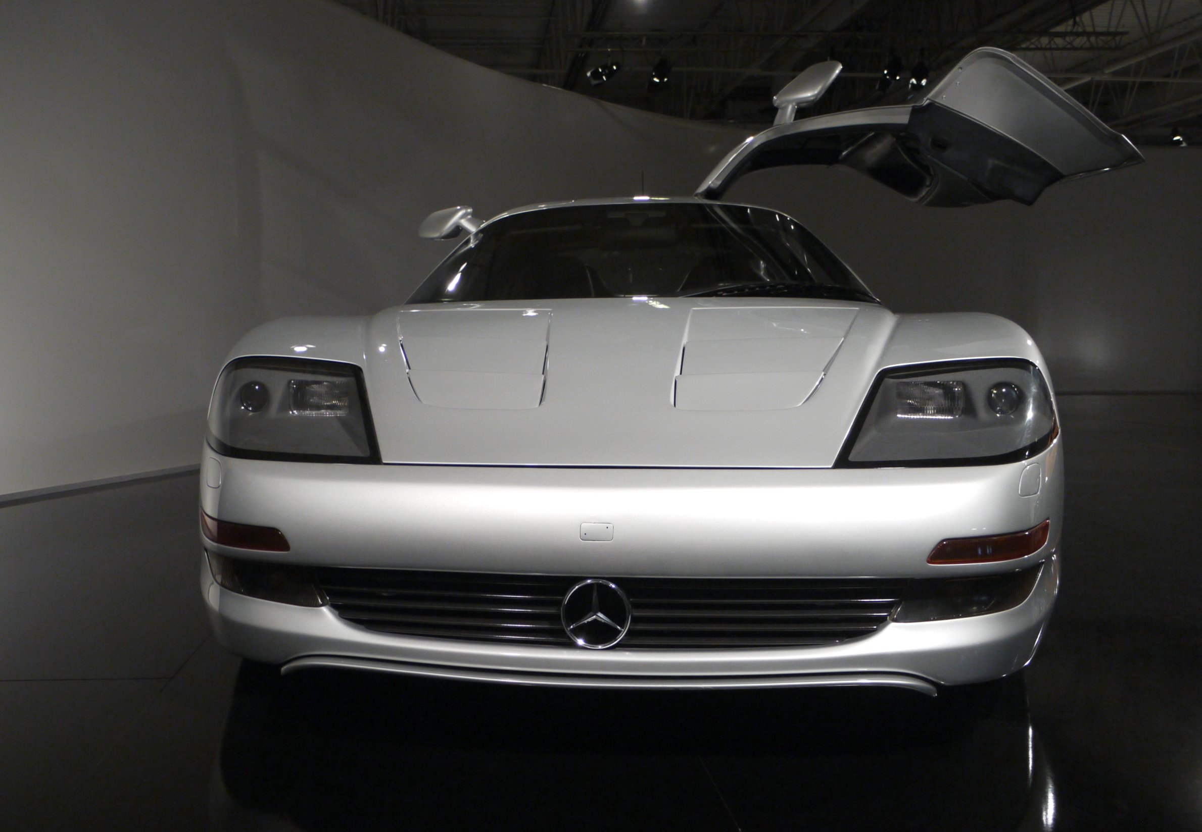 1991 Mercedes-Benz C 112 concept. Spec.: - V12 engine - 5987 cc - 408 bhp - Top speed: 310 Km/h (193 mph)